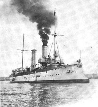 From: Cassier's Magazine (New York City: The Cassier Magazine Company) Vol 25. 1903. Page 7